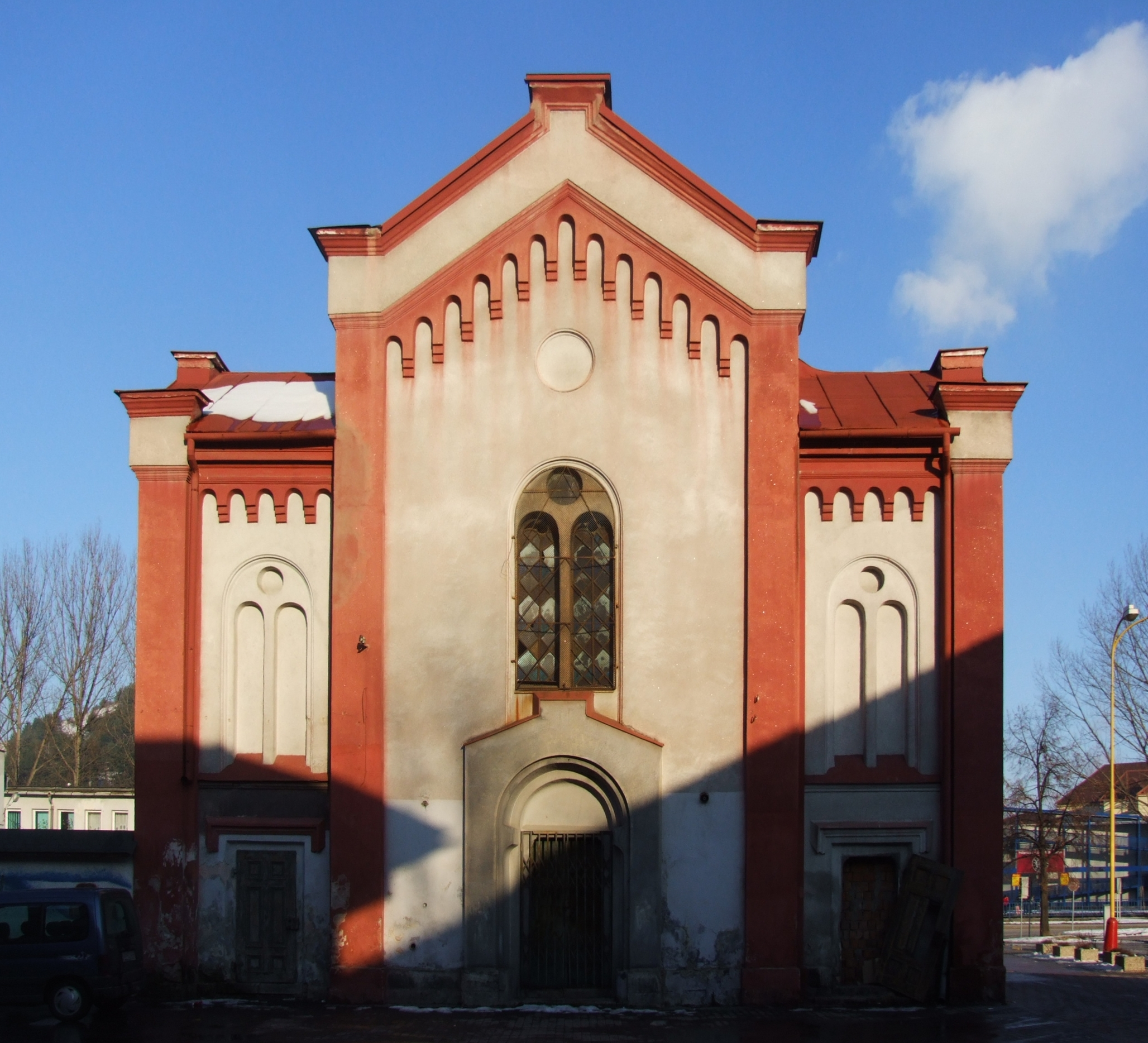 Synagogue in Ružomberok, Slovakia